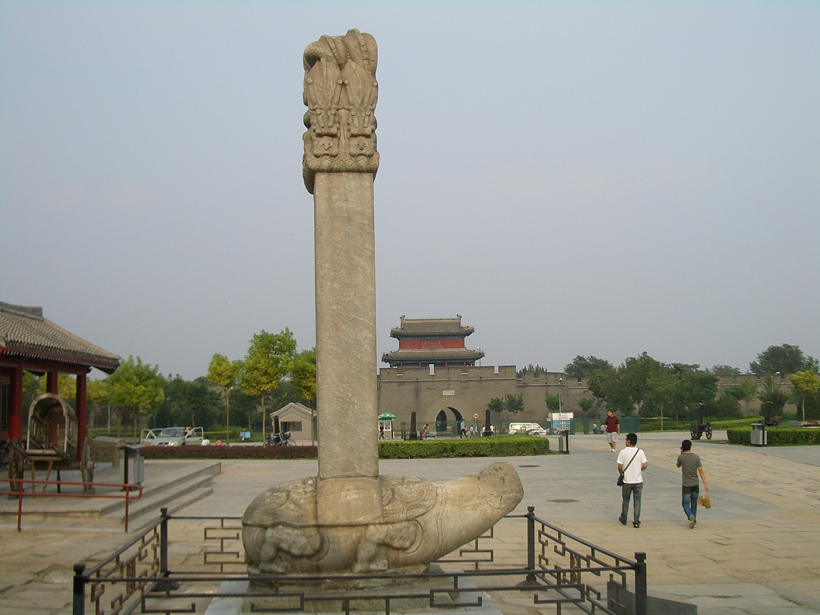 The stele commemorating Kangxi Emperor's rebuilding of the eastern part of the Lugou Bridge after it was damaged by flood. It stands on top of a bixi turtle, next to Qianlong's "Morning moon over the Lugou" stele, and is noticeably eroded. The sign by the stele says that it was put up in the 8th year of the Kangxi era (i.e. circa 1669), commemorating the rebuilding that took place in the 7th year of Kangxi era (i.e., ca. 1668). However, most sources only mention Kangxi's rebuilding that took plpace in 1698. The west gate of Wanping Castle is in the background.